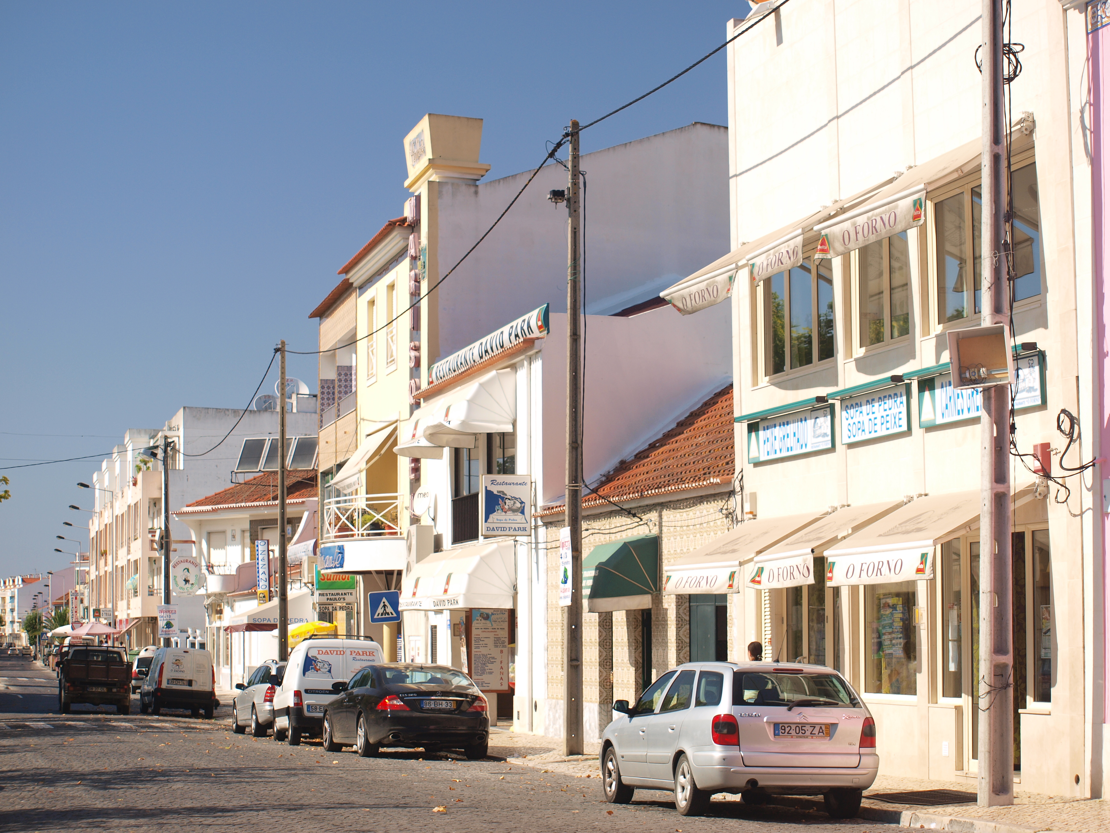 Street of Almeirim, Portugal, with several restaurants serving "sopa da pedra", a typical local soup.